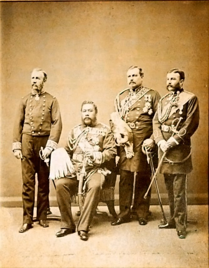 King Kalakaua and his aides Charles H. Judd and George W. MacFarlane and his cook Robert von Oelhoffen, during the king's trip around the world.